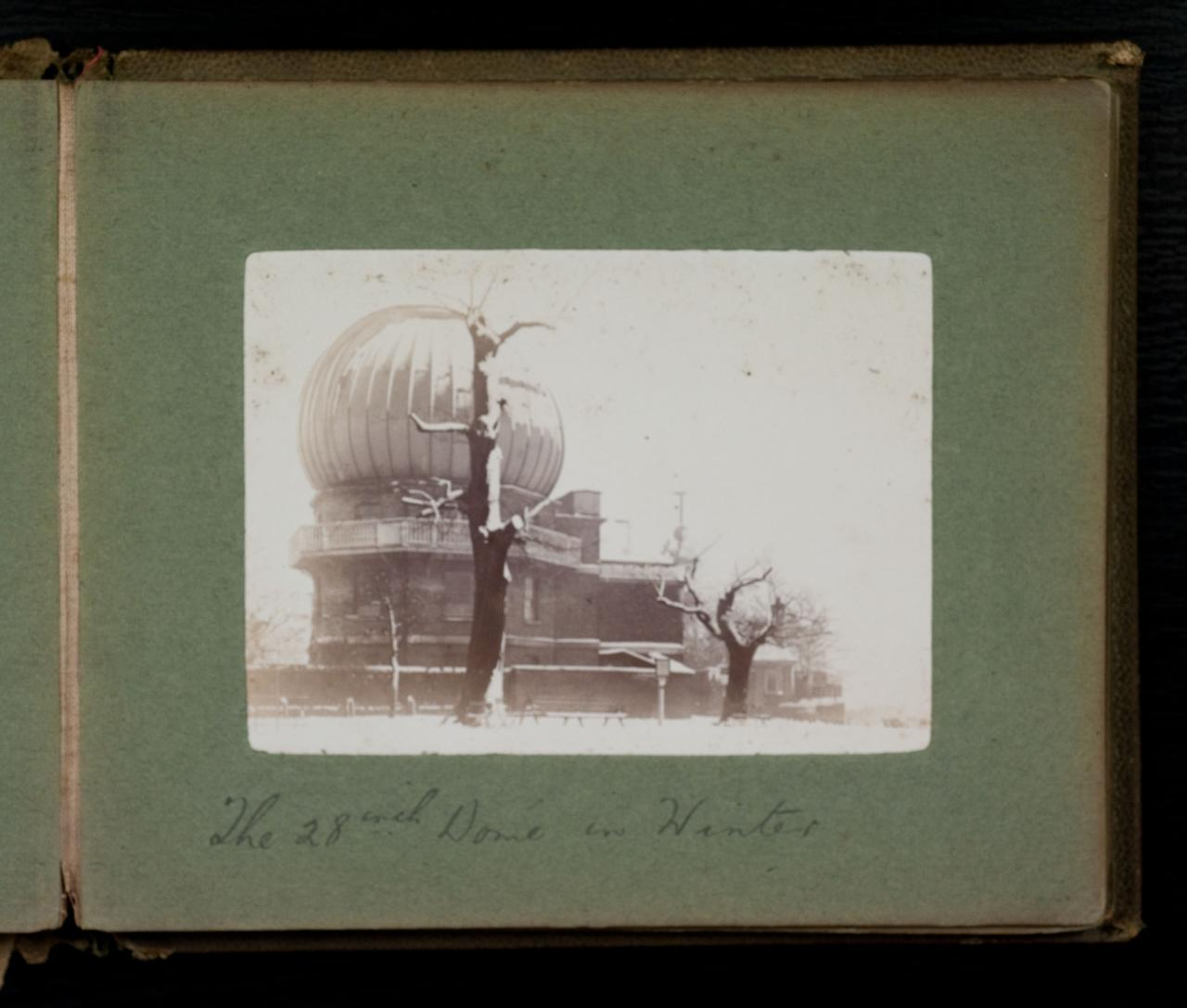 From a lovely small album containing 24 'behind-the-scenes' images of the Royal Observatory, Greenwich, ca 1900. See the full set